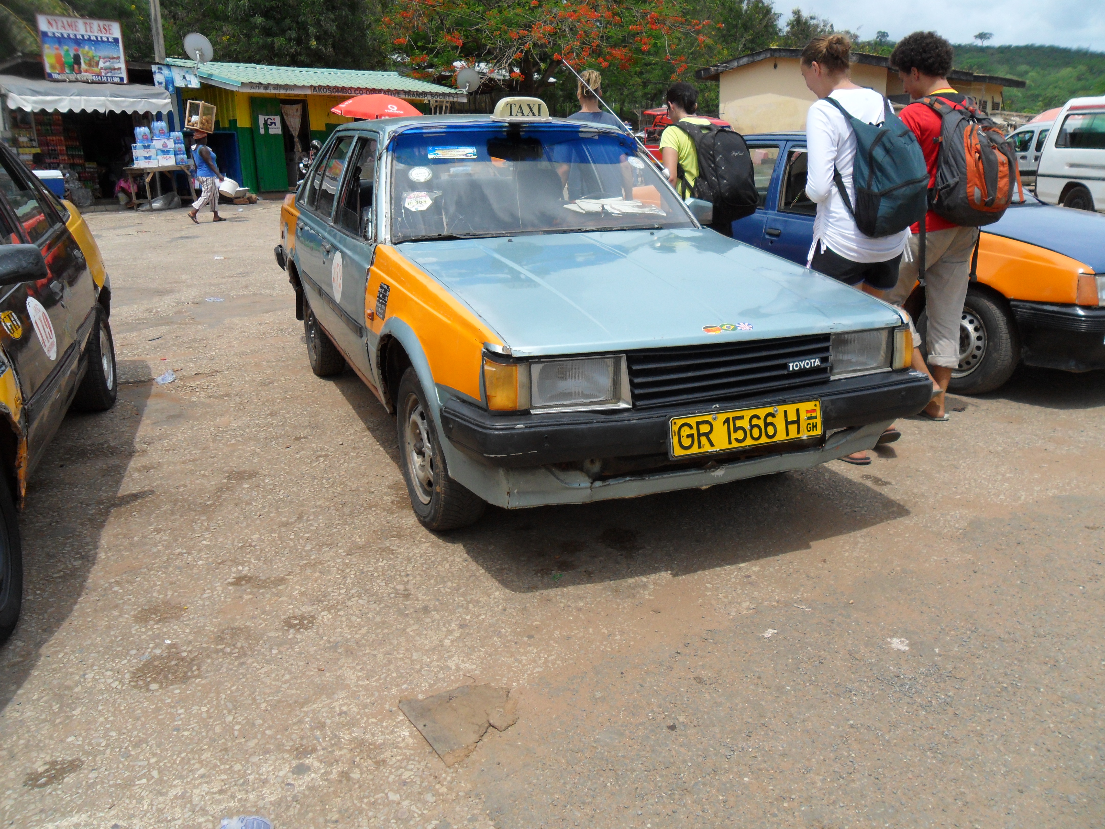 This was quite an oldy, even by African standards, I believe it's a model from the mid 80s. Not in too bad shape for its age, I saw this one driving around quite a lot, although I haven't yet had a ride in it. All taxis in Ghana have yellow panels like this one, as well as yellow number plates.